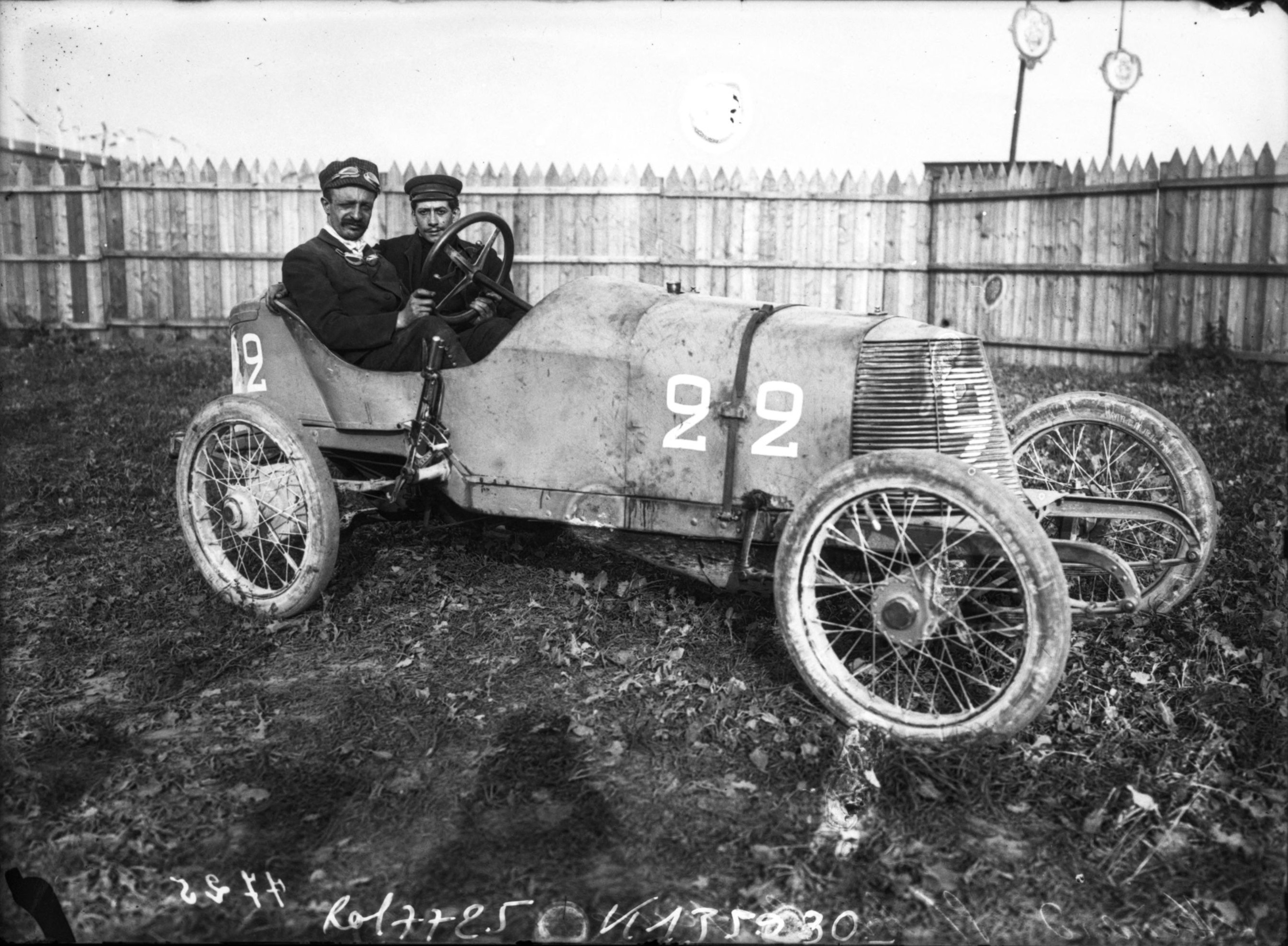 P. Ménard in his La Joyeuse at the 1908 Grand Prix des Voiturettes at Dieppe.